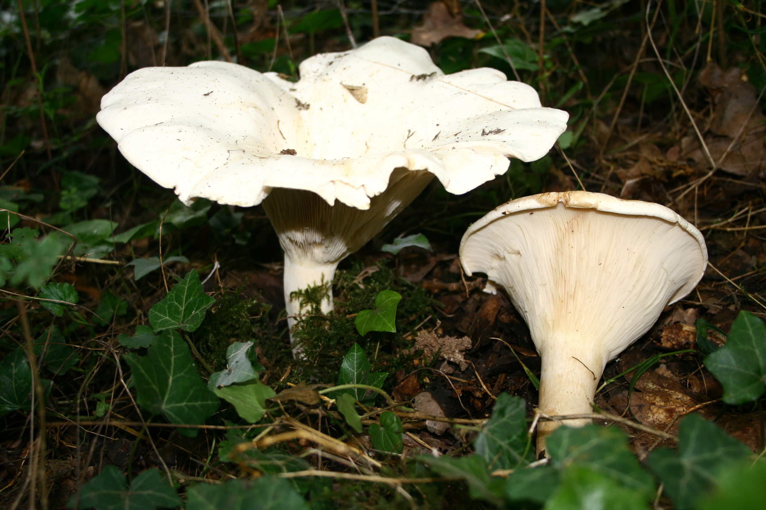 Leucopaxillus giganteus (= Clitocybe gigantea) in a wood near Saint Chéron, France.